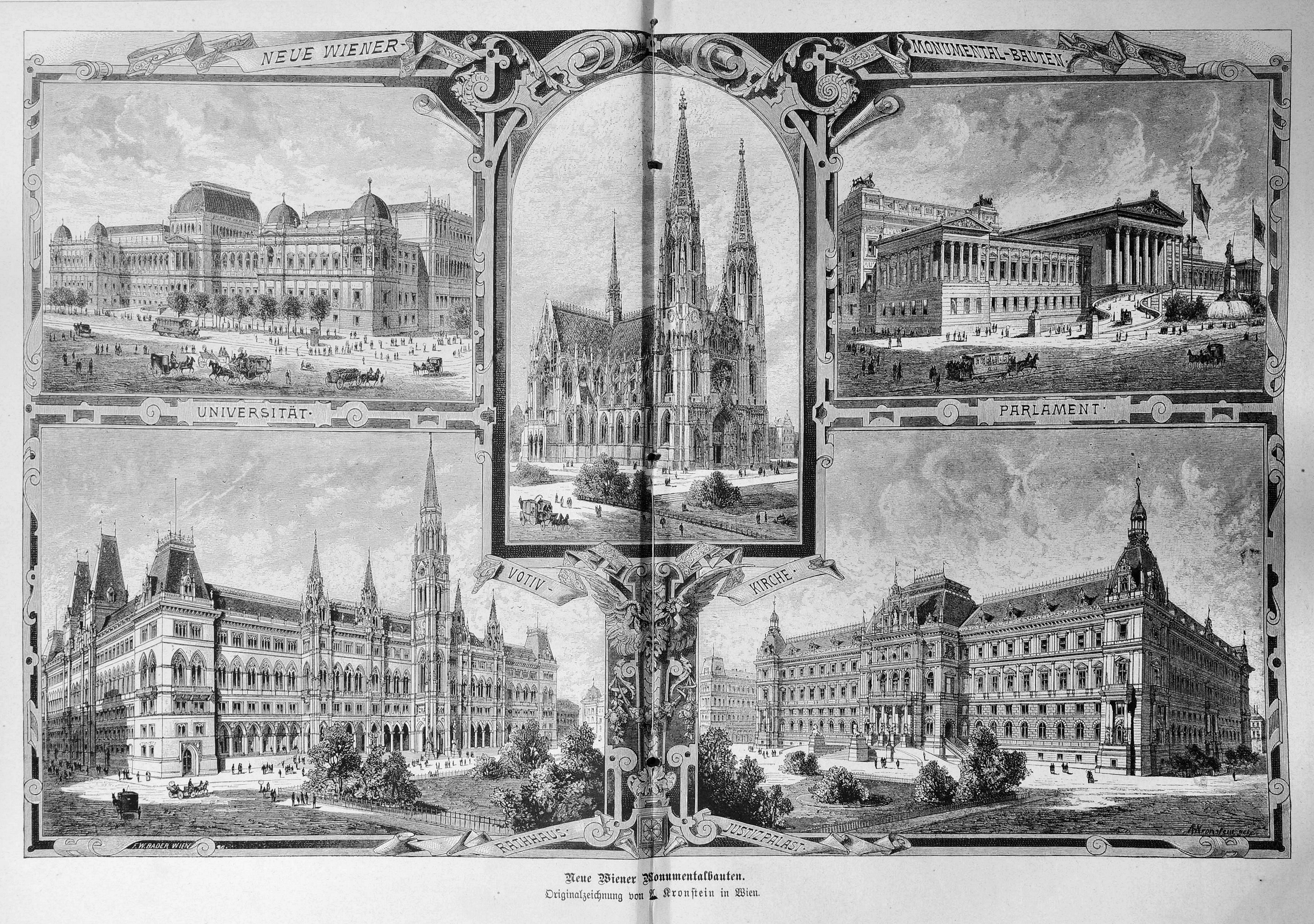 caption: "Neue Wiener Monumentalbauten. Originalzeichnung von A. Kronstein in Wien."